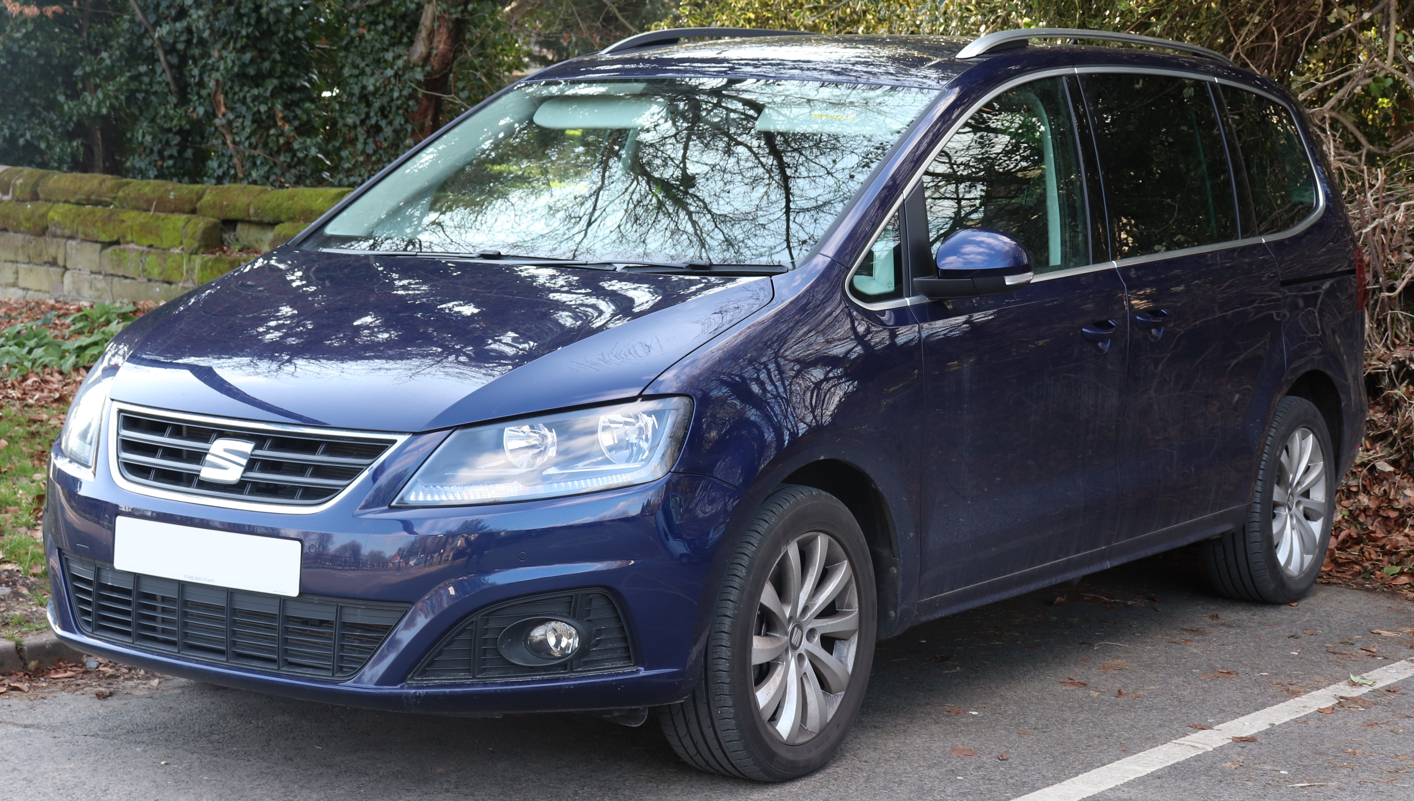 2017 SEAT Alhambra SE TSi 1.4 Taken in Warwick